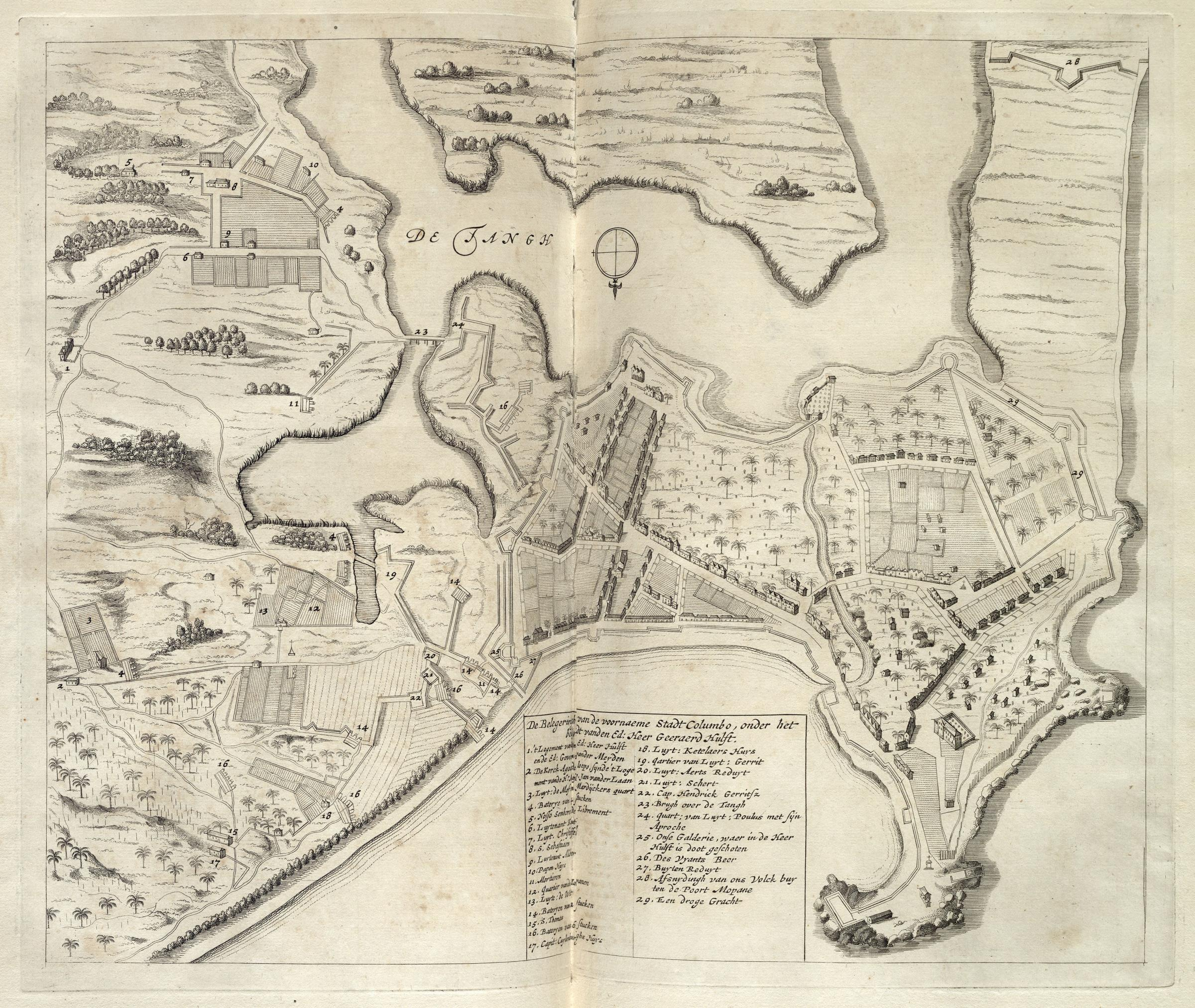 Bird's eye view of the conquest of Colombo in 1656. De Belegering van de voornaeme Stadt Columbo, onder het bewindt venden Ed: Heer Geeraerd Hulft. Key: 1. 't Logement vanden Ed: Heer Hulft en de Ed: Goven: vander Meyden / 2. De Kerck Agoa de loepo, synde 't Logement vande H: [?] Jan vander Laan / 3. Luyt: de Mof [?] Mardijckers quart / 4. Batarye van 4 stucken / 5. Nosso Senhoro de Librement / 6. Luytenant [?] / 7. Luyt. Christoffel / 8. S. Sebastiaen / 9. Luytenant Ali[?] / 10. Papen Huys / 11 Mortieren / 12. Quartier van de Javanen / 13. Luyte: de Wit / 14. Bateryen van 2 stucken / 15. S. Thomas / 16. Bateryen van 6 stucken / 17. Capit: Cuylenburghs Huys / 18. Luyt: Ketelaers Huys / 19. qartier van Luyt: Gerrit / 20. Luyt: Aerts Reduyt / 21. Luyt: Schert / 22. Cap. Hendrick Gerritsz / 23. Brugh over de Tangh / 24. Quart: van Luyt: Poulus met sijn Aproche / 25. Onse Galderie, waer in de Heer Hulft is doot geschoten / 26. Des Vyants Beer / 27 Buyten Reduyt / 28. Afsnydingh van ons Volck buyten de Poort Mopane / 29. Een droge Gracht. This print of Colombo is like the watercolour by Vingboons, National Archives, inv. nr. VELH0619.115 based on a (now lost) drawing comparable to that of Nessel: National Archives, inv. nr. VEL0942.